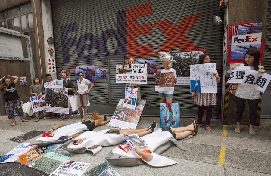 Anti shark fin protestors at the Fedex depot in Hong Kong's Kennedy Town